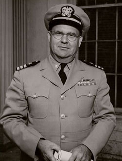 A picture of Commander William M. Rigdon from the Truman Library.